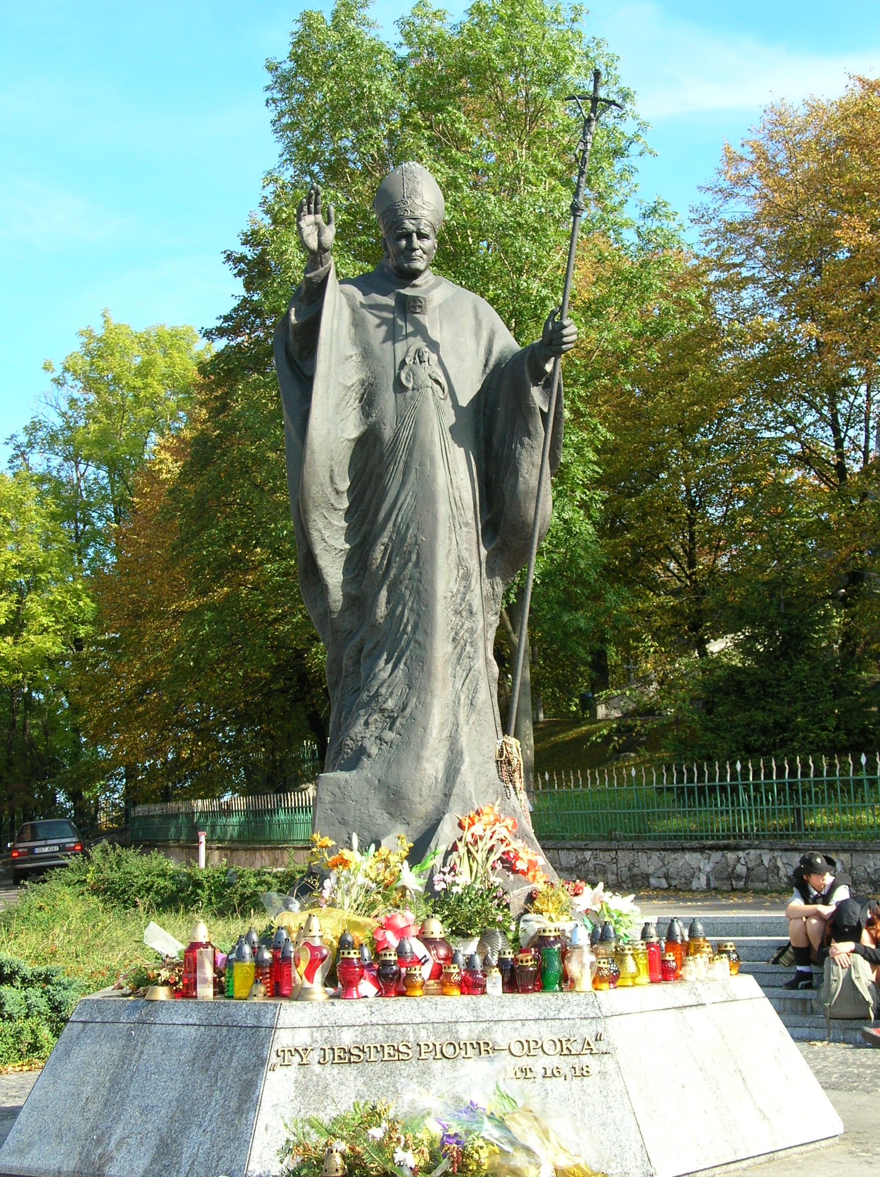 Góra św. Anny. Pomnik Jana Pawła II. St. Annaberg, Opole Silesia. Monument of the pope John Paul II.